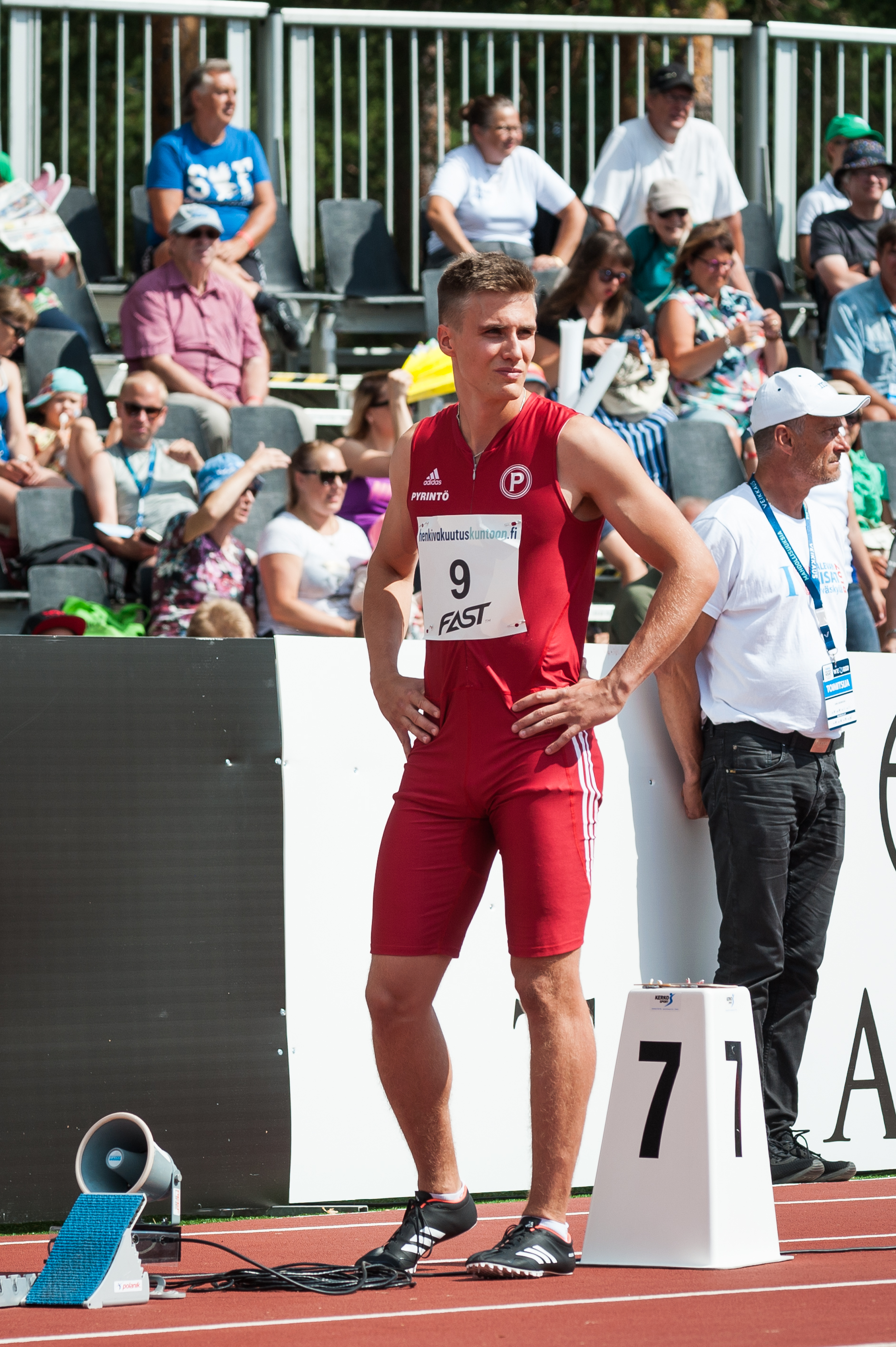 Men's 200 m competition at the 2018 Kalevan Kisat, the Finnish championships in athletics, in Jyväskylä, Finland.